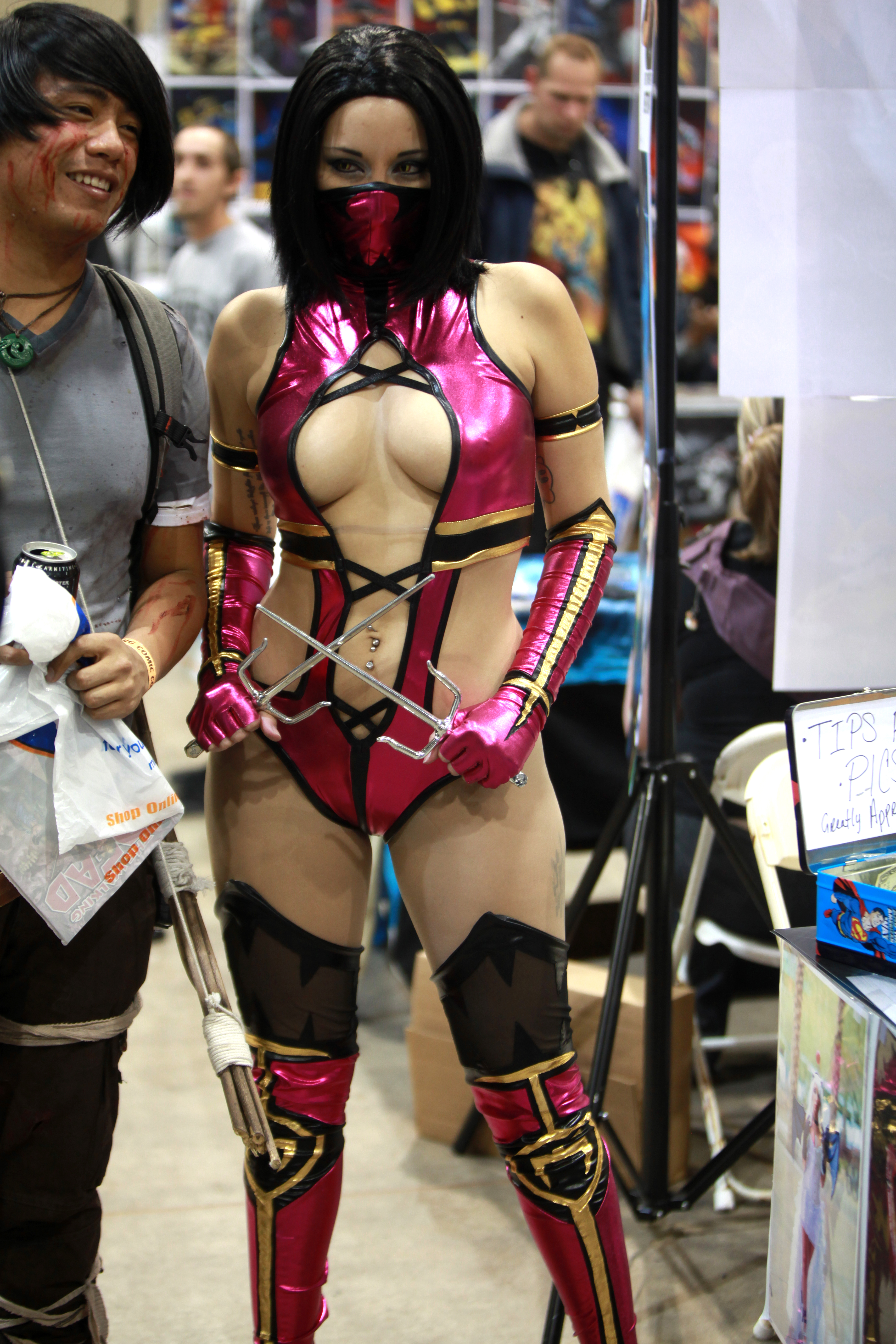 Mileena cosplayer (Rosanna Rocha) at the 2014 Amazing Arizona Comic Con at the Phoenix Convention Center in Phoenix, Arizona.